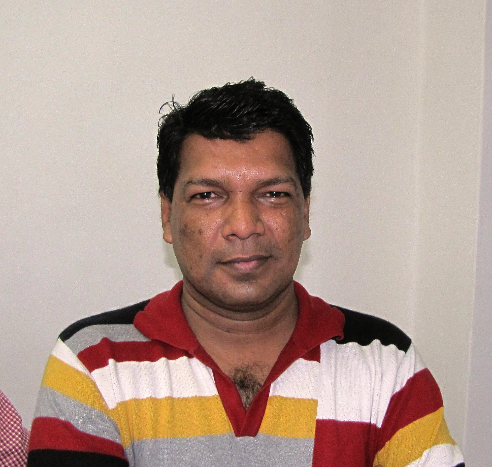 Chetan Joshi, Indian author at a Writer's Mantra fiction writing workshop held on 19-20 May 2012 in the British Library, Pune, Maharashtra, India.